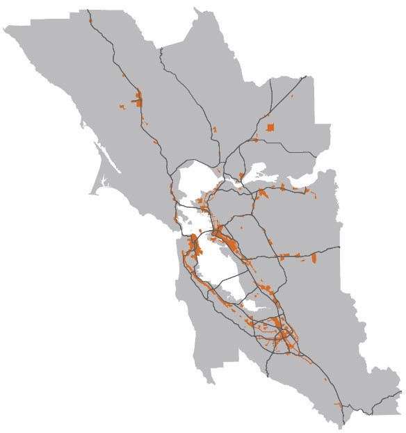 This is just a map pulled by the developers from their website.